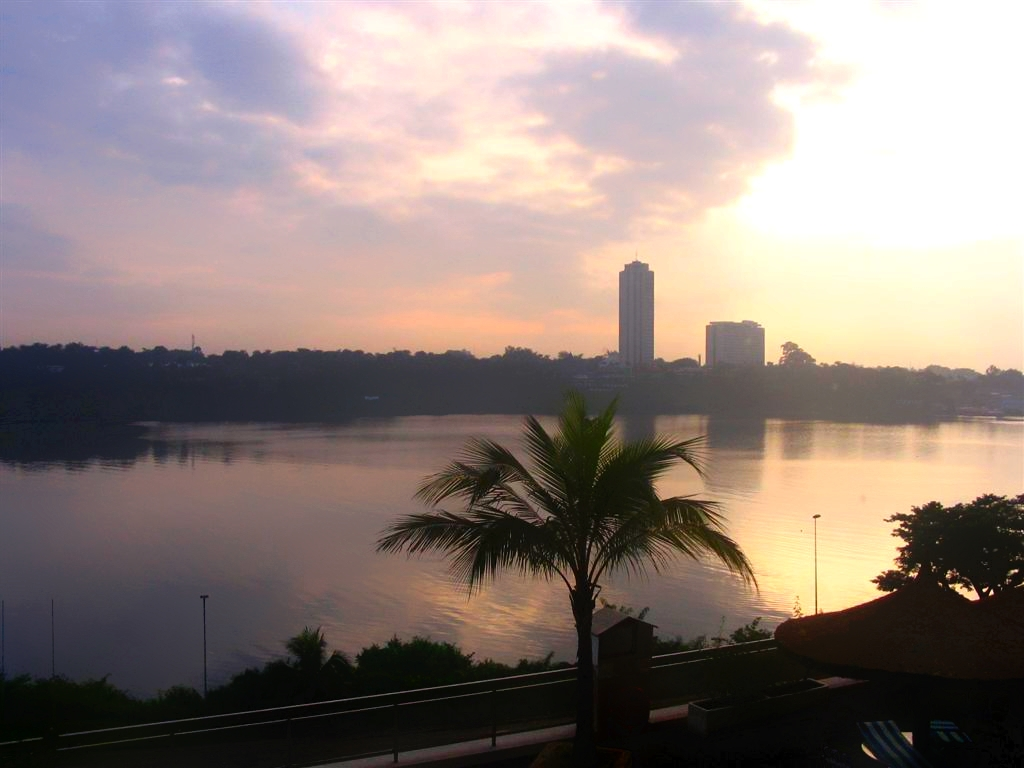 Sunet on Abidjan's laguna, with the Hôtel Ivoire.